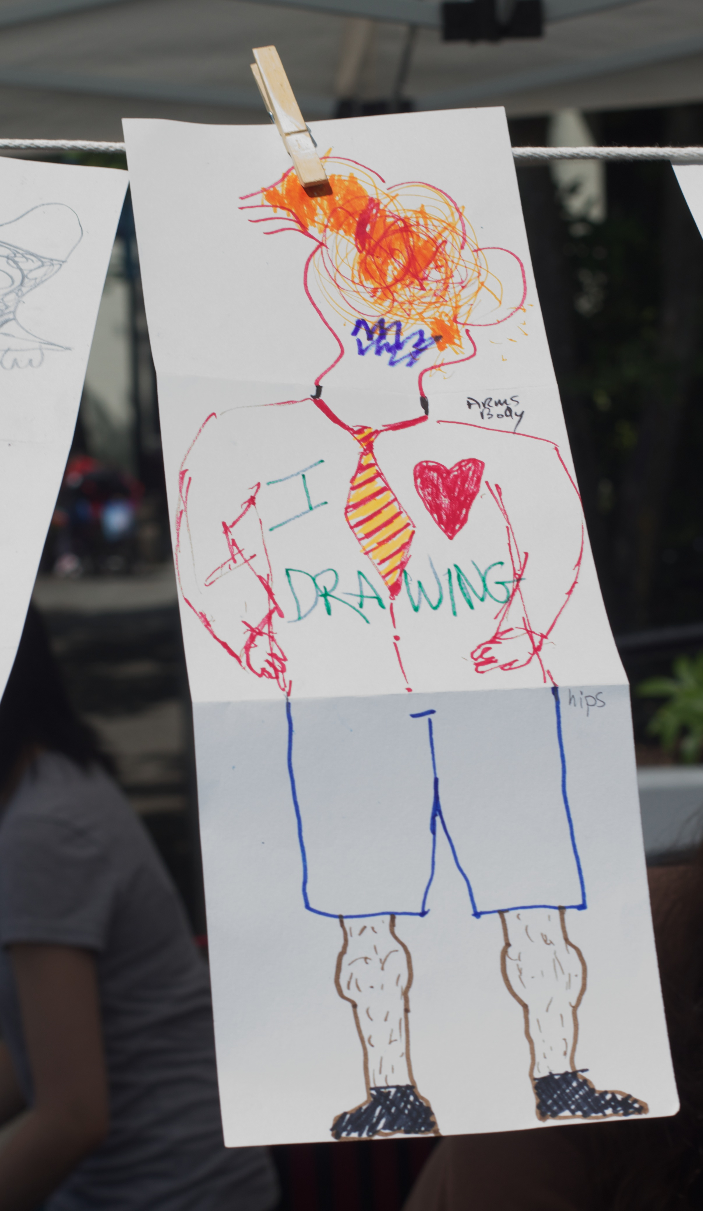 Vancouver Draw Down event at the Britannia Community Center